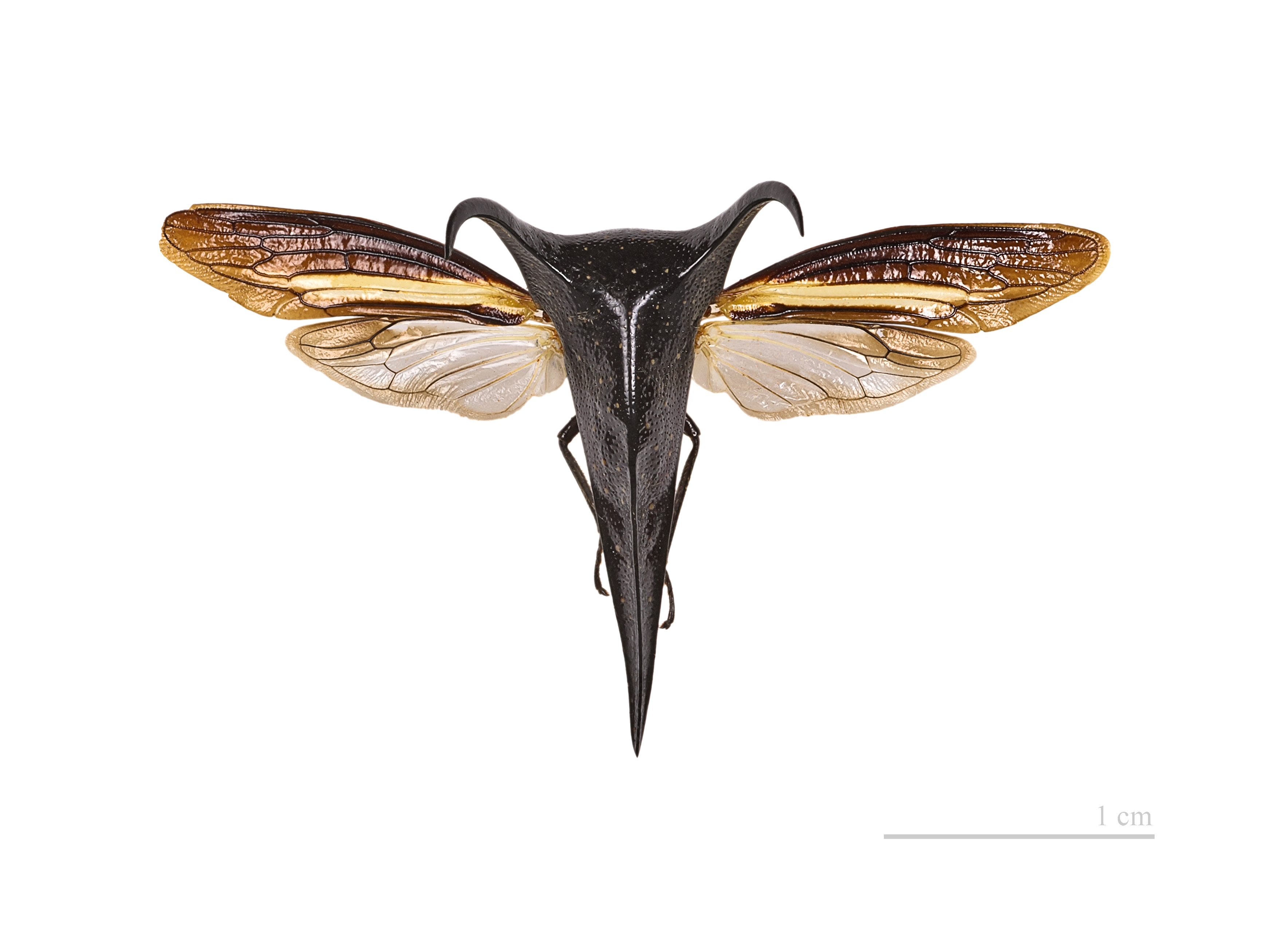 Hemikyptha marginata- Dosal view Locality : Montsinéry, French Guiana